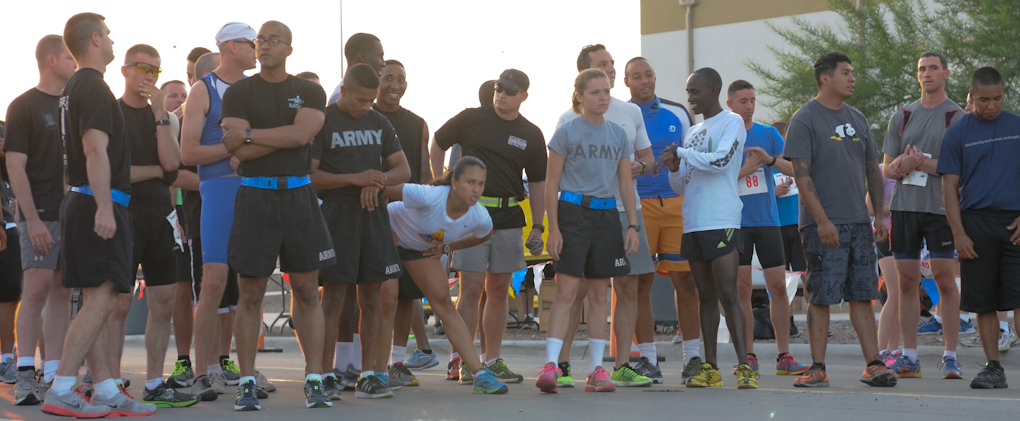 Soldiers from across Fort Bliss, Texas, await the starting gun for the Commander's Cup Aquathlon, held at the Aquatic Training Center, July 25. Spc. Jepeth Ng'Ojoy (white long-sleeve shirt, yellow running shoes), a lab technician at William Beaumont Army Medical Center, ran the two 5K sections of the race and came in first place with his teammate Staff Sgt. George Greene, also a lab tech at WBAMC, who swam the 400 meter leg of the race. (U.S. Army photo by Sgt. James Avery)